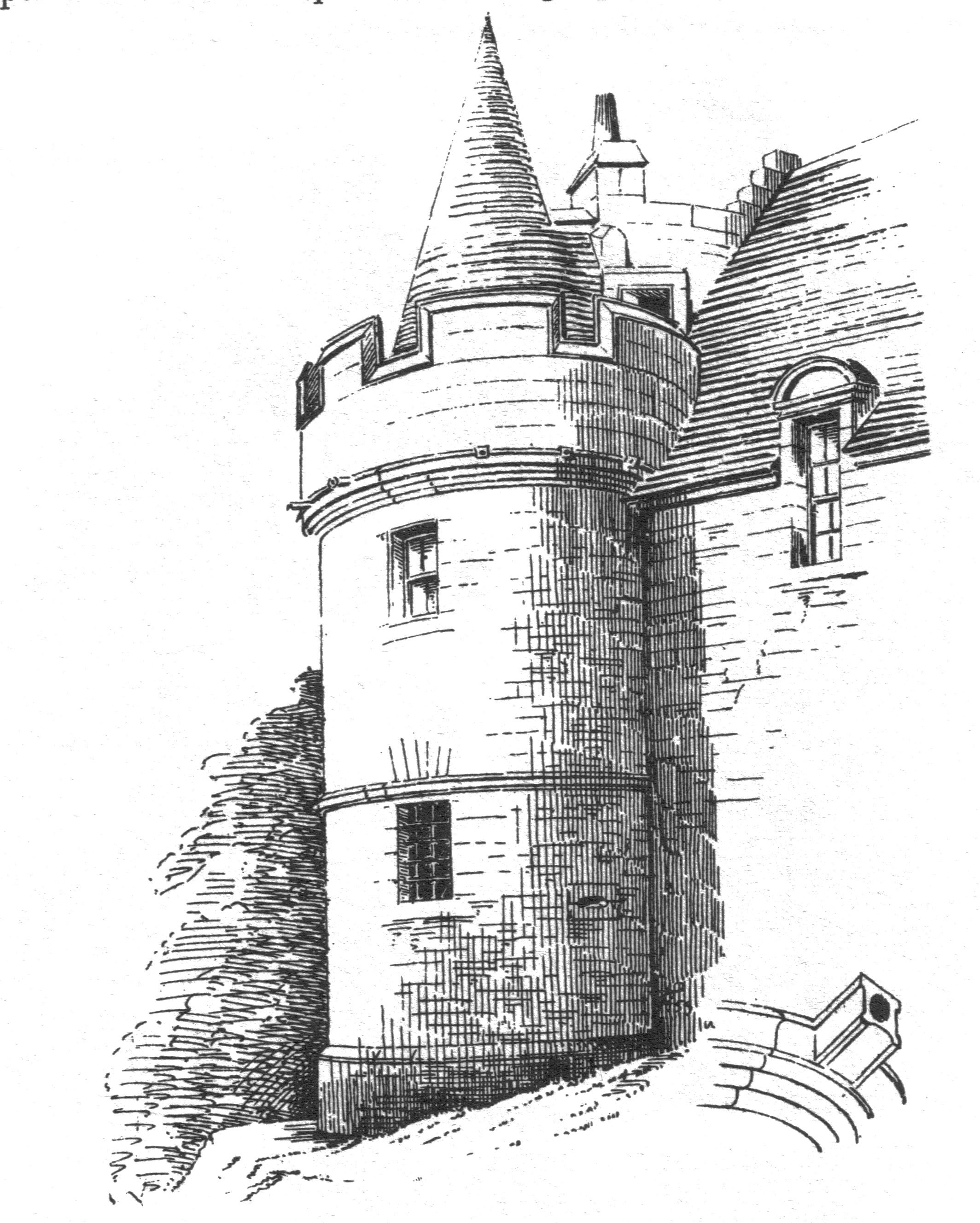 The view of Skelmorlie Castle from the South-West, Largs, North Ayrshire, Scotland.